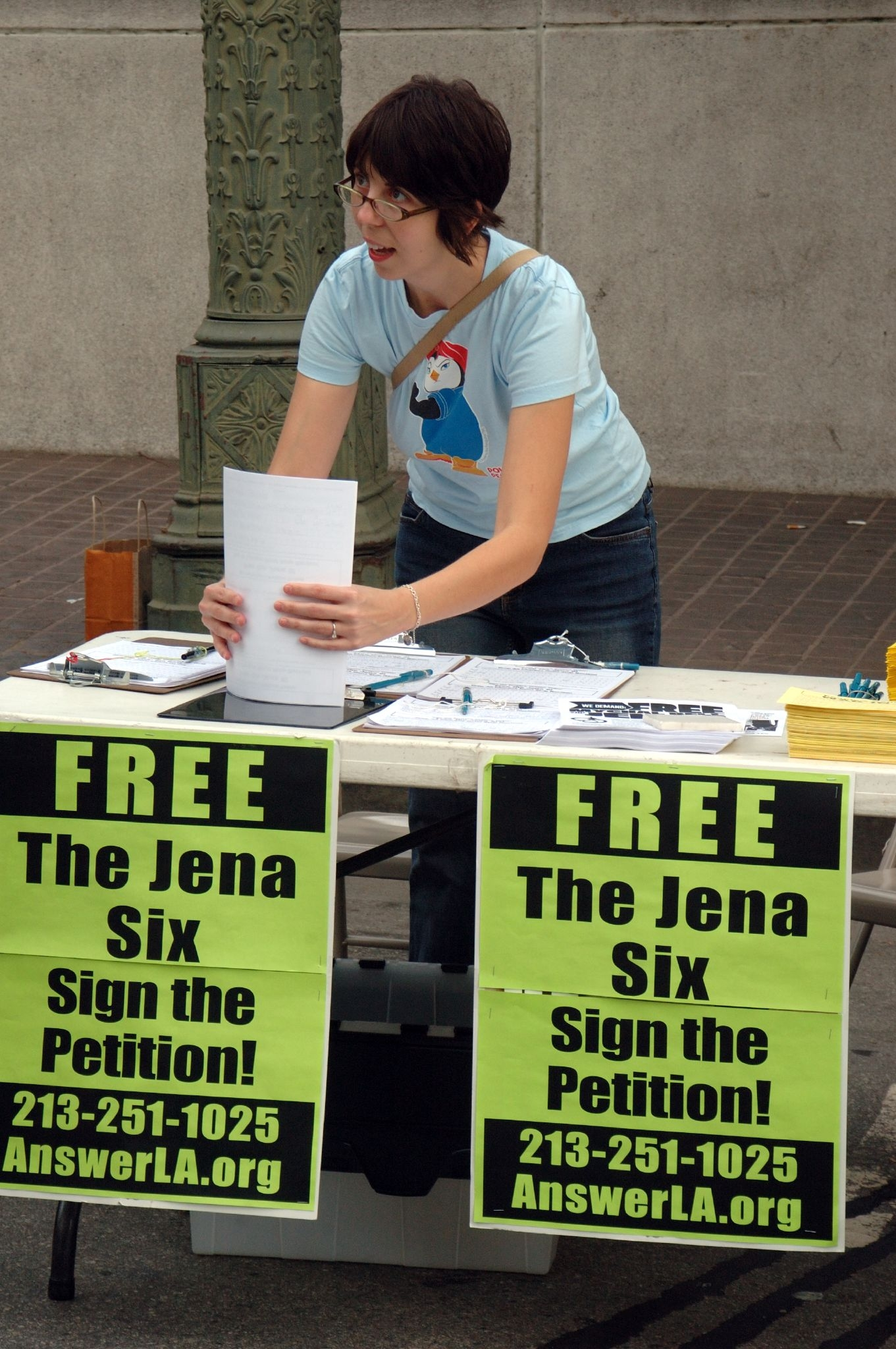 Jena Six petition worker at a Los Angeles anti-war rally.